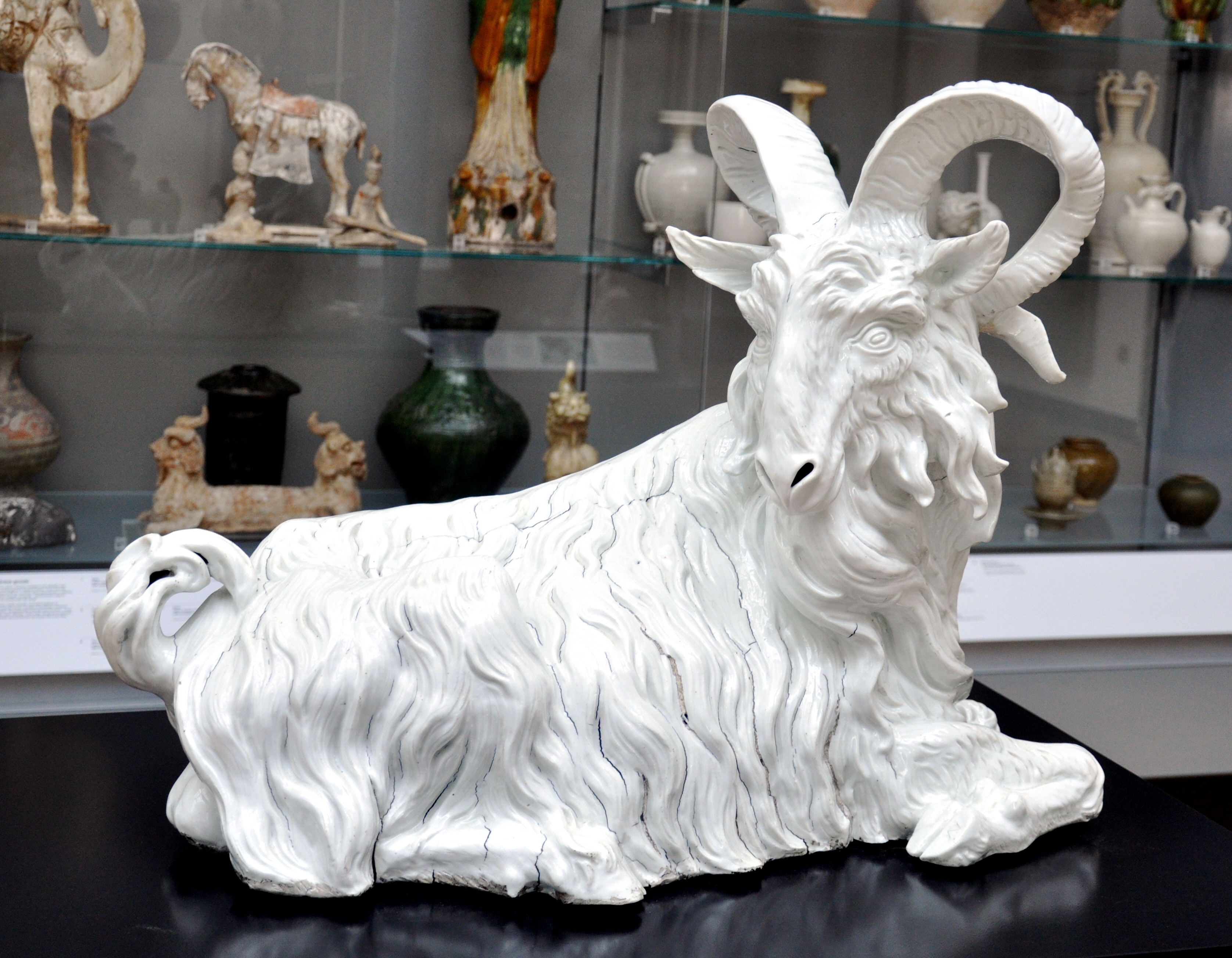 Porcelain figure of a goat, white, modelled by J. J. Kaendler, Meissen porcelain factory, Germany, about 1732. Victoria and Albert Museum, London, museum no. C.111-1932 (Link)